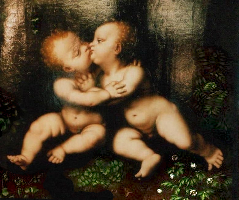 Detail of a copy of lost painting by Leonardo da Vinci. Possibly painted in Milan as a variation on The Virgin of the Rocks, the painting has a background of rocks (not shown) and plants related to everything Leonardo drew in his studies of natural forms. The anemones (bottom right) are superbly painted. A number of versions of this composition exist.